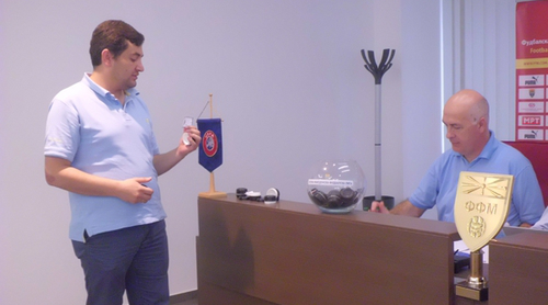 Bujar Ahmedi Draw